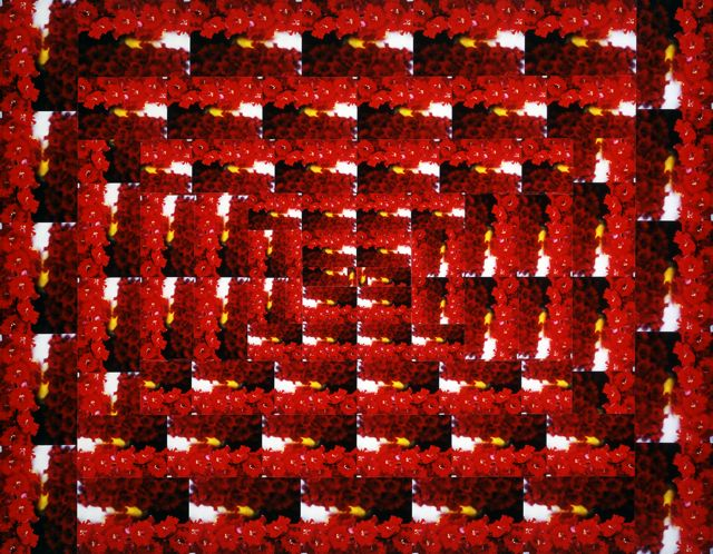 Original photographic collage by Elizabeth Gill Lui. Snap Dragon Mandala; Mandala 1 from Gill Lui's The Horizon Within series. The artist writes: "My work in photographic collage has involved an investigation into the fractal nature of organic life and the issues of duality, multiplicity, and the right and left brain perception of pattern and our ability to create meaning. The overlap between physics and the spiritual structure of the mandala and tanka style of painting has been an influence in the geometric structuring of my work."